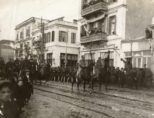 King George I of Greece and Crown Prince Constantine enter Thessaloniki during the First Balkan War, November 1912